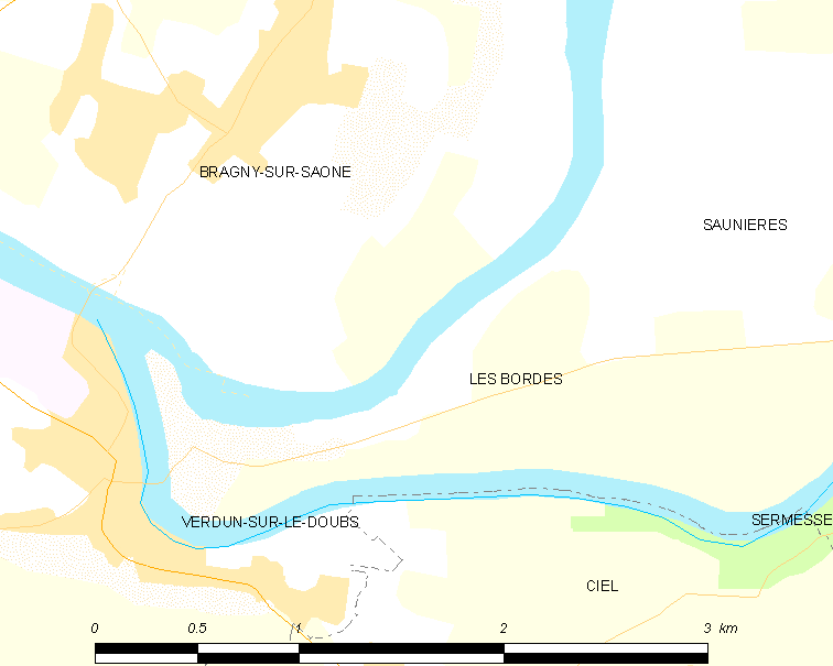 Map of French municipality